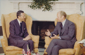 The photo contact sheet, identified as B0742 by the White House Photographic Office (WHPO), is housed at the Gerald R. Ford Presidential Library, a branch of the National Archives and Records Administration (NARA). This file is a 200 dpi photo contact sheet having images from roll of film B0742 of the August 9, 1974 - January 20, 1977 Gerald R. Ford White House Photographic Office Series A0001-A9999 and B0001-B2886 photographs. The date on the photo contact sheet is the date the roll of film was processed, not necessarily the date the photographs were taken. See table below for additional details.